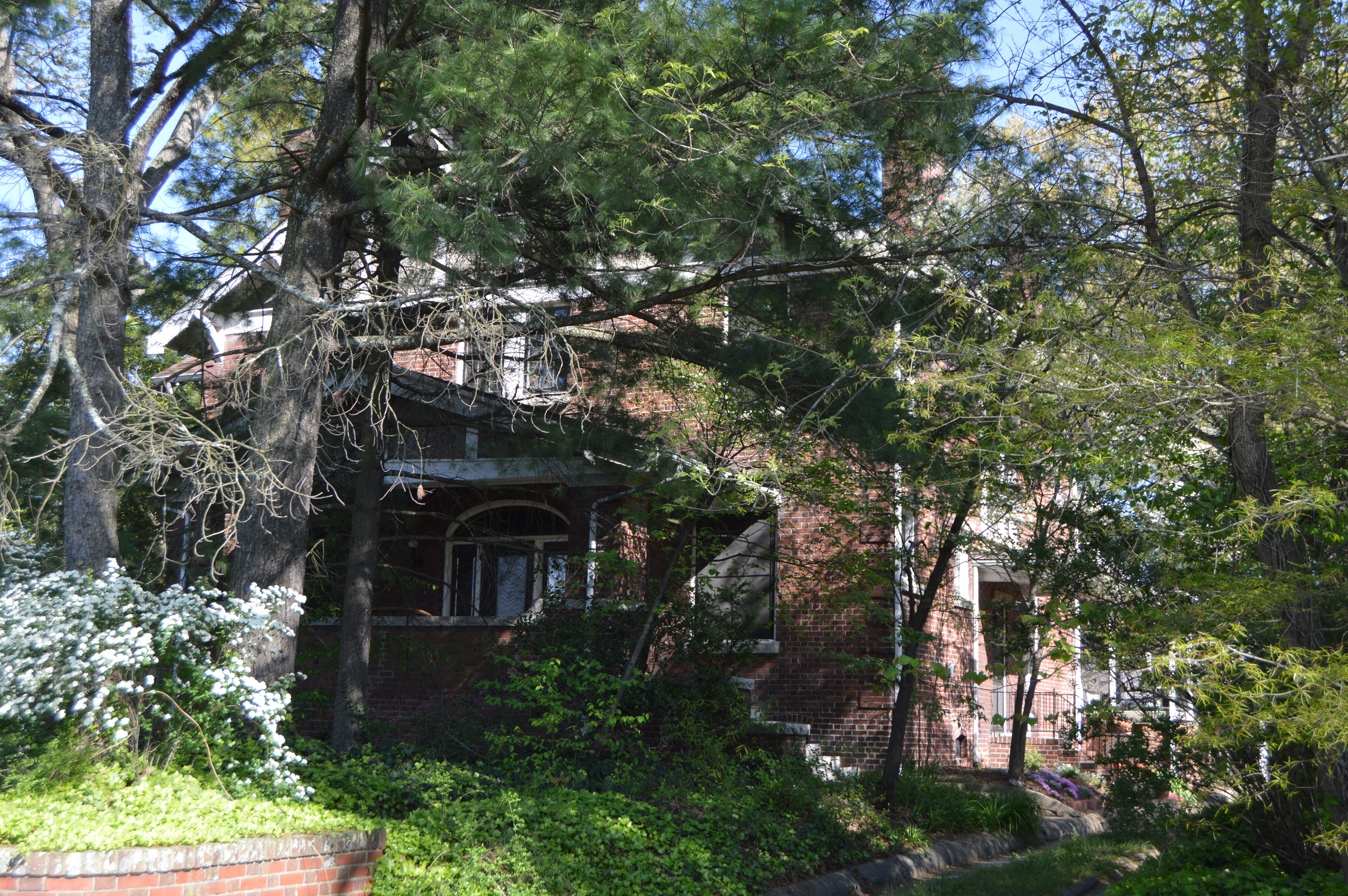 Front of the O. Arthur Kirkman House, located at 501 W. High Street in High Point, North Carolina, United States. Built in 1913, it is listed on the National Register of Historic Places.